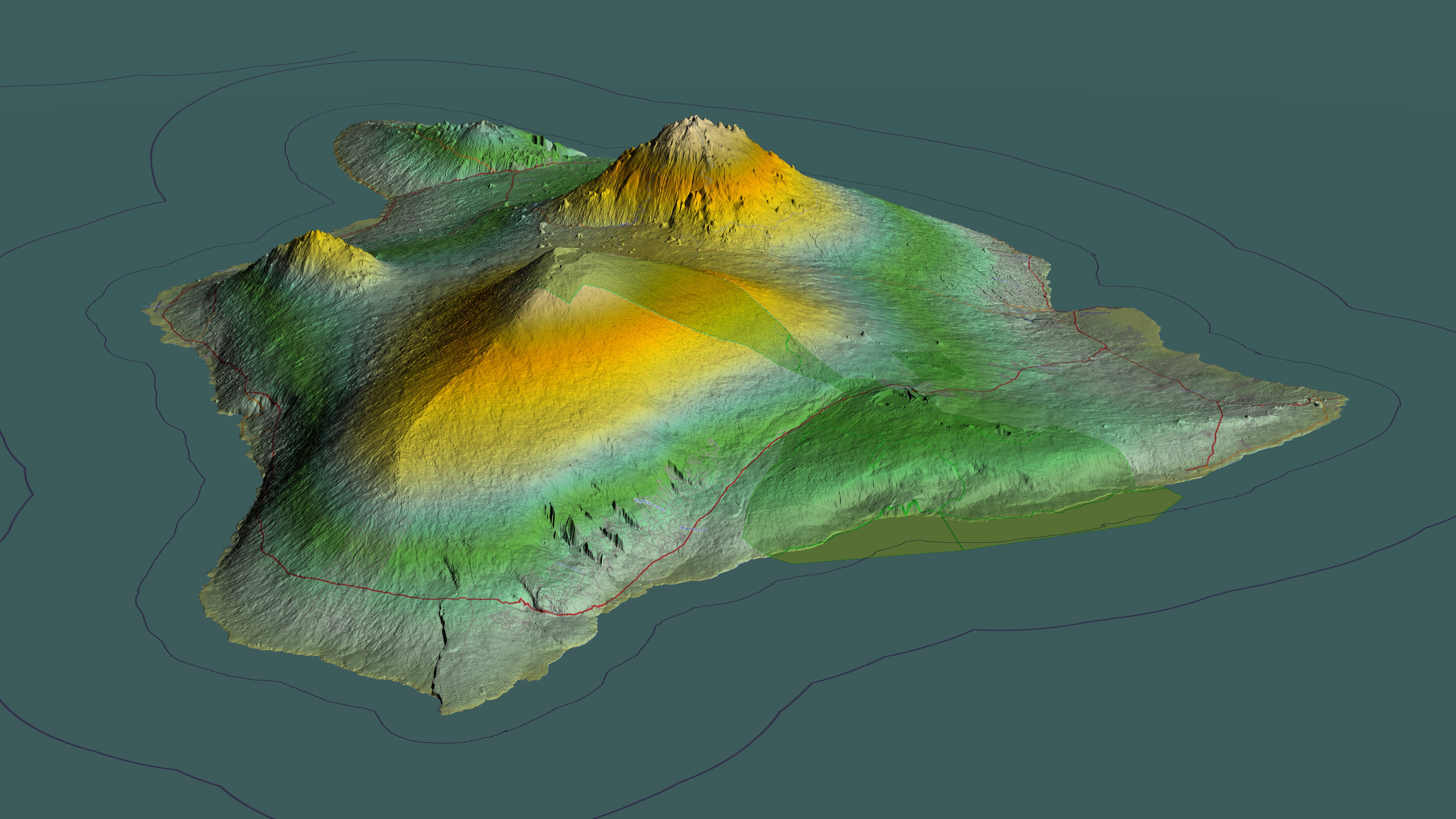 Hawaii, Big Island, computer image generated using TruFlite